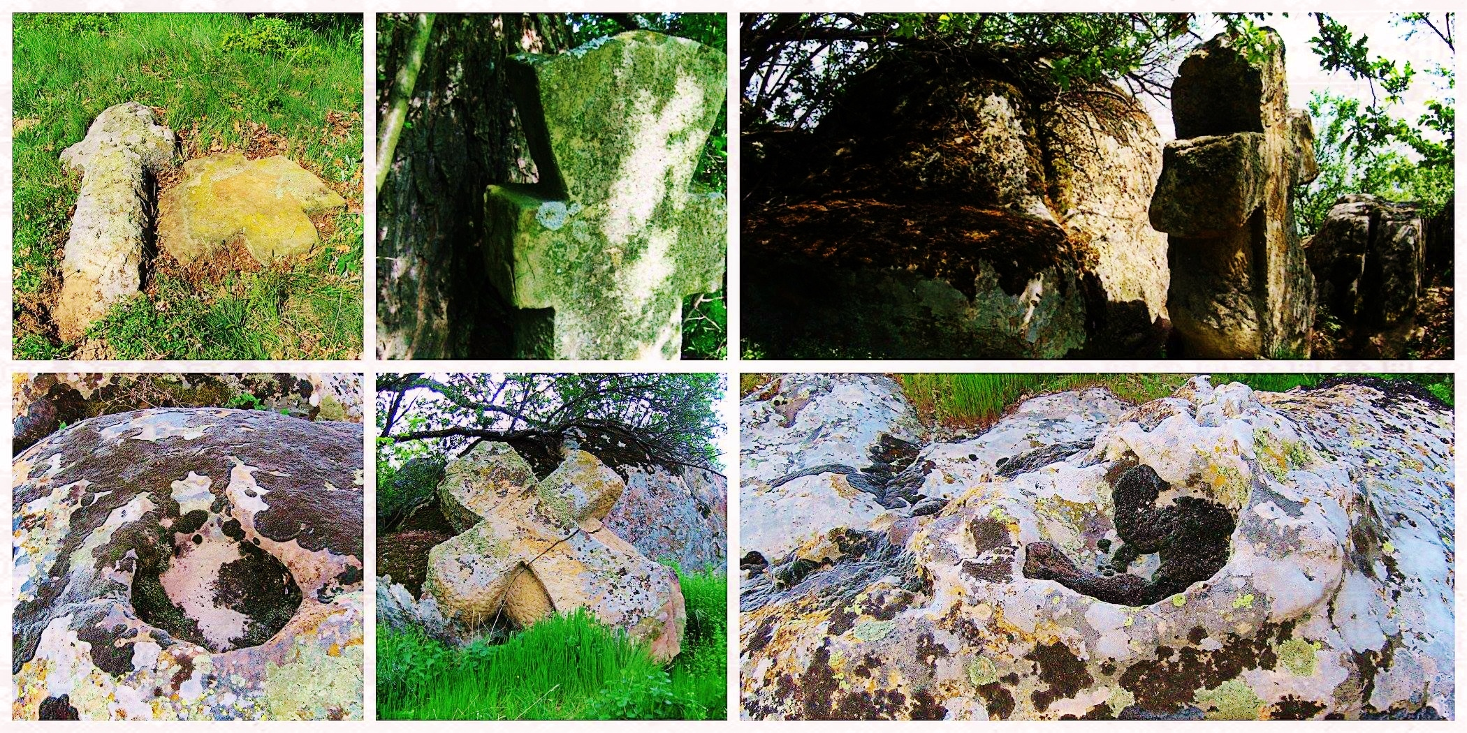 Stone Cross elements (Krastati kamen) Vetren Kuystendil Bulgaria